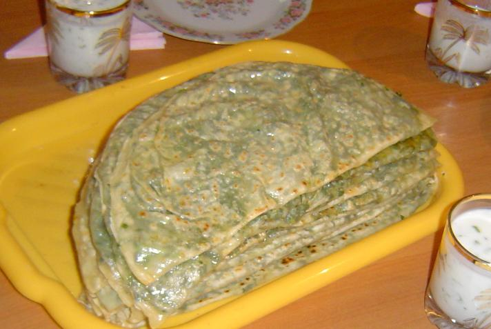 Lezgian national course "Afar".